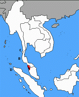 Kedahan dialect of Malay